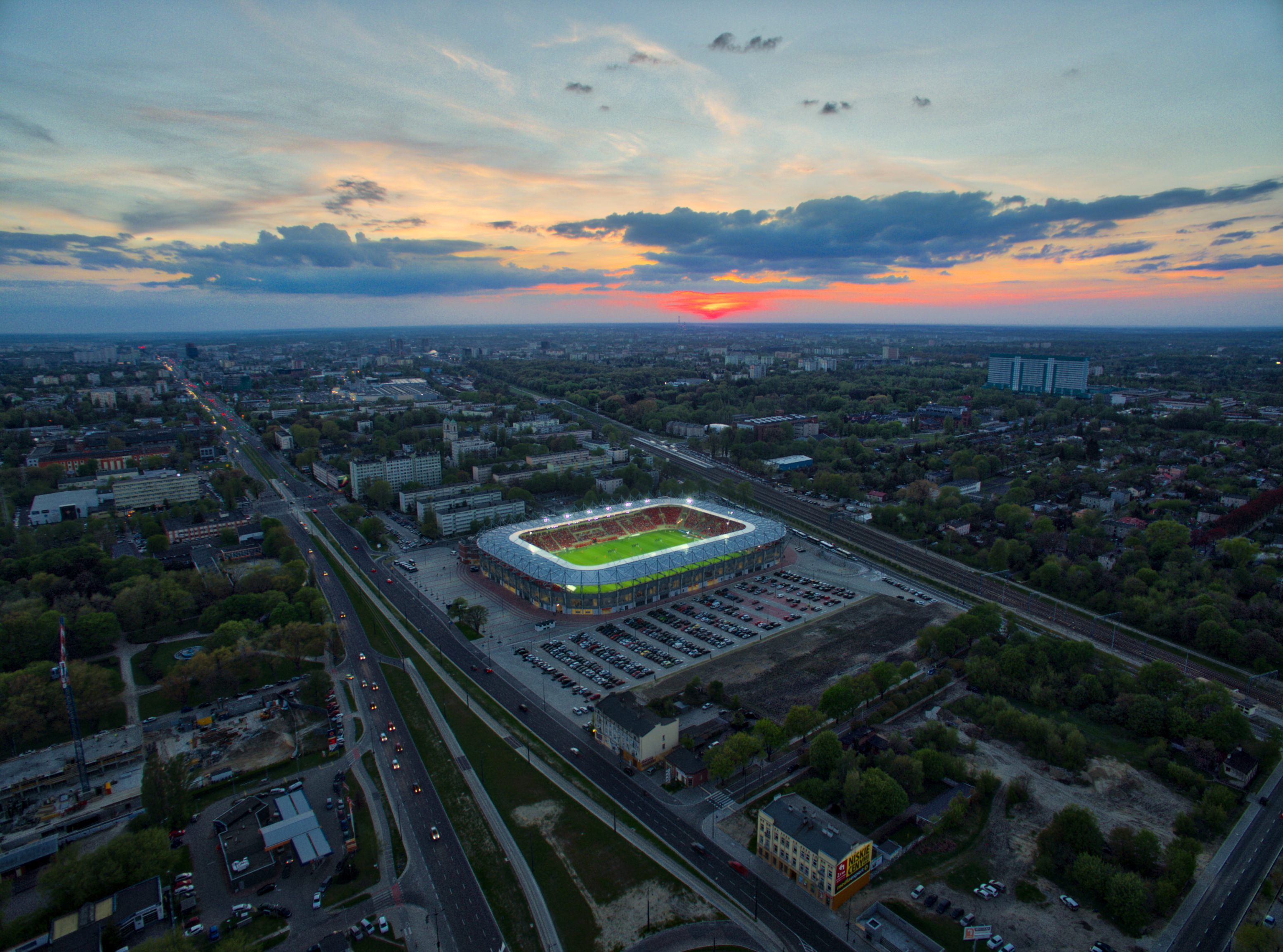 Stadium of Widzew Lodz - match